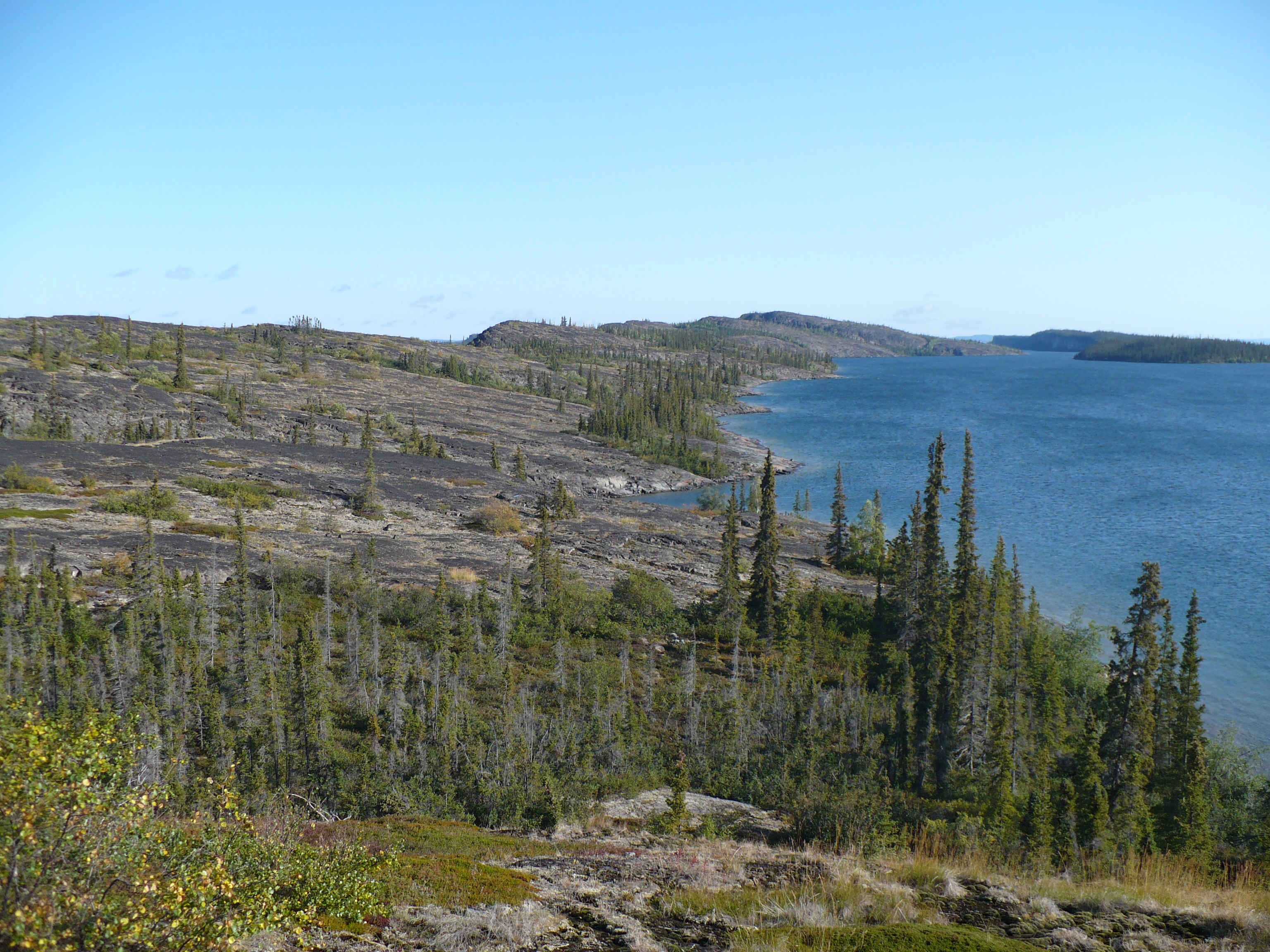 Utsingi Point, East arm of Great Slave Lake, Canada. This is the eastern edge of the new proposed Thaydene Nene National Park.